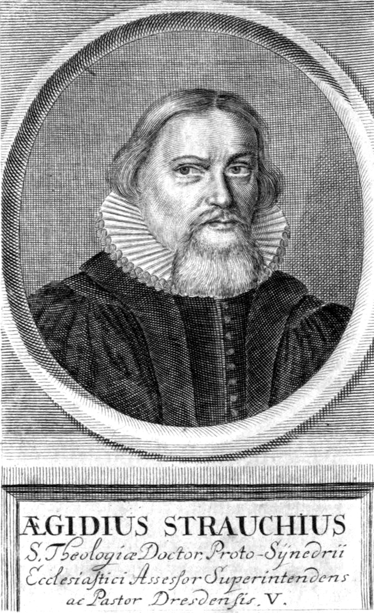 Aegidius Strauch (1583-1657) Protestant theologians from Germany